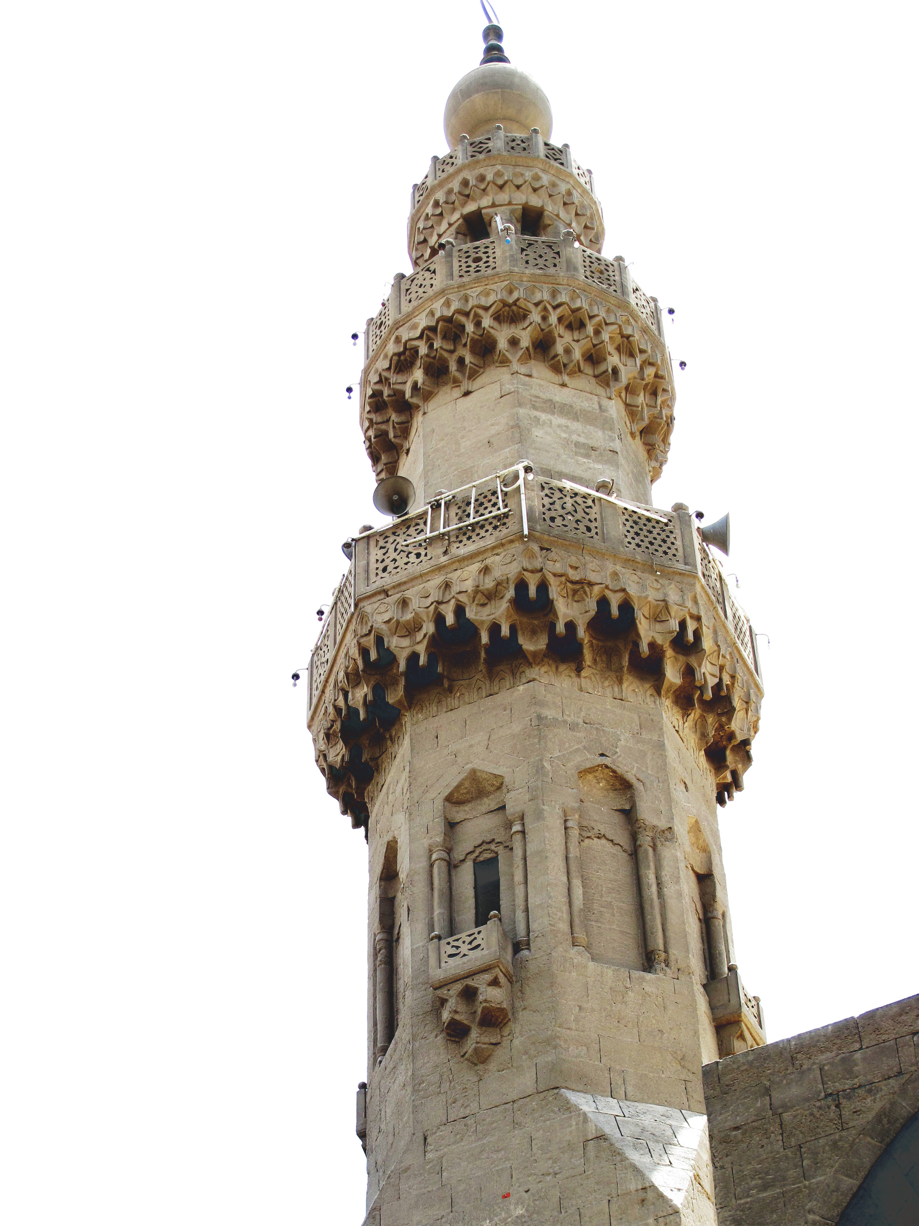 Minaret of Mosque of Amir al-Maridini